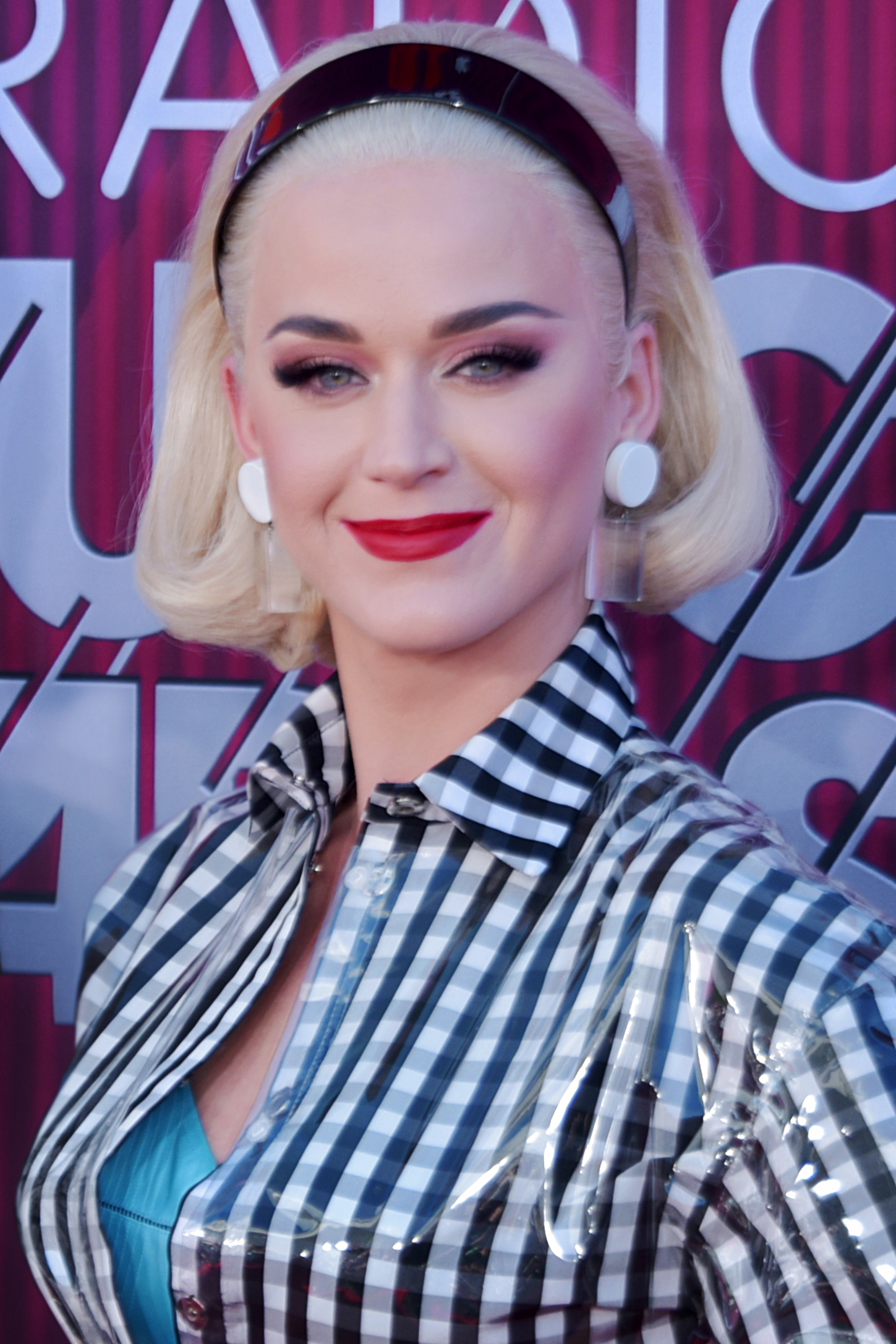 Katy Perry being a legend as always